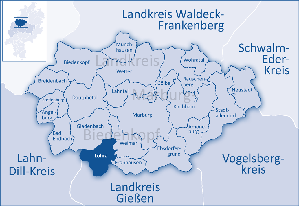 The map shows a district in the area of Marburg-Biedenkopf